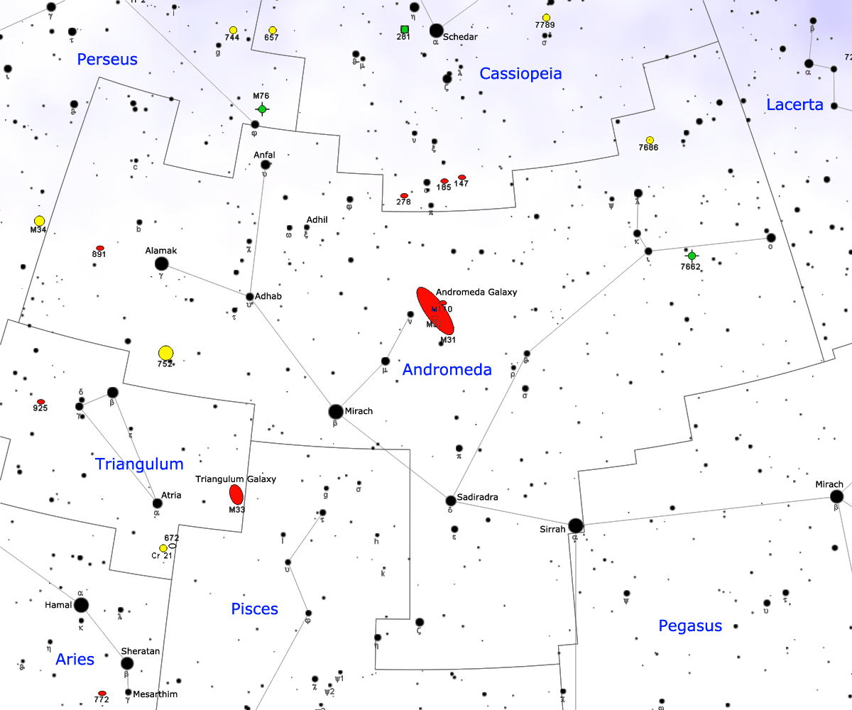 Map of Andromeda